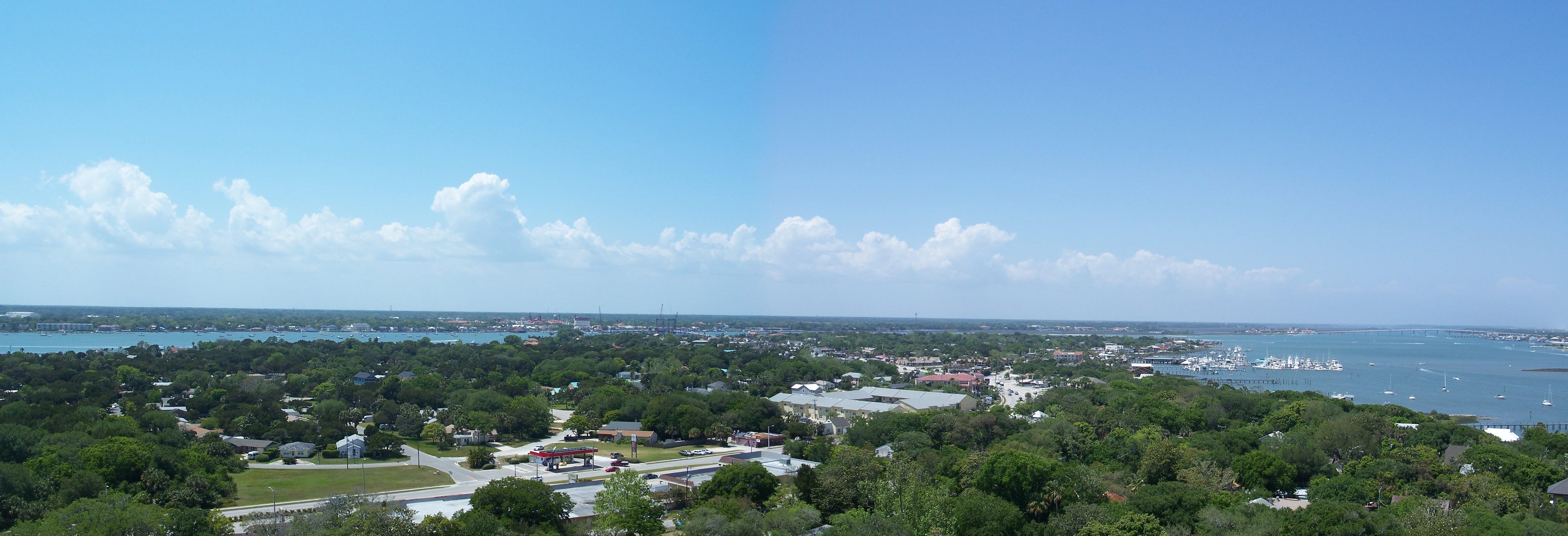 St. Augustine, Florida: Anastasia Island: Panorama view from the top of the St. Augustine Lighthouse, looking north and west towards St. Augustine